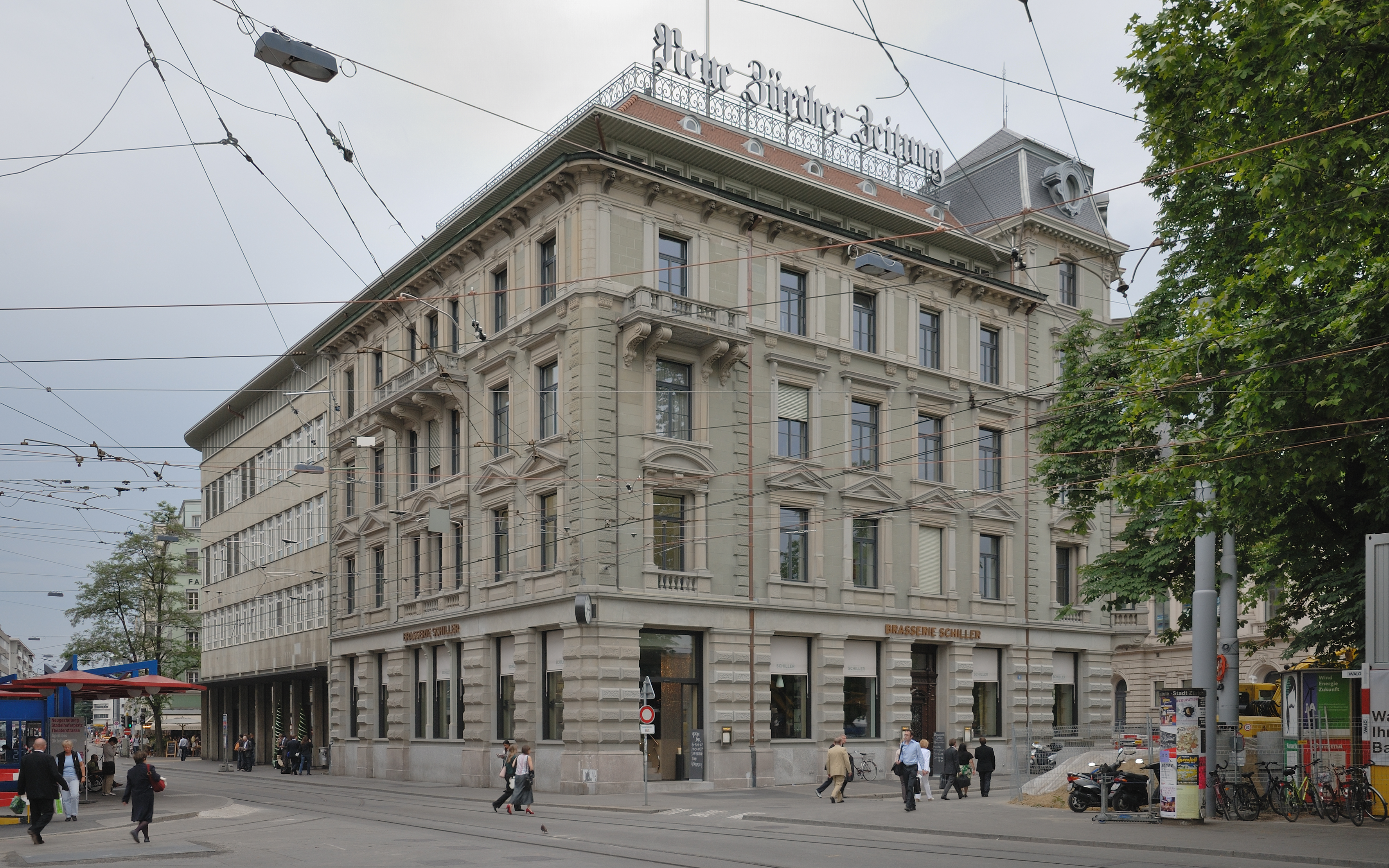 Building in Zürich where the Neue Zürcher Zeitung (NZZ) Group and the editorial staff of the newspaper are located. Northern view from Theaterstrasse; the entrance is on the opposite side at Falkenstrasse 11.